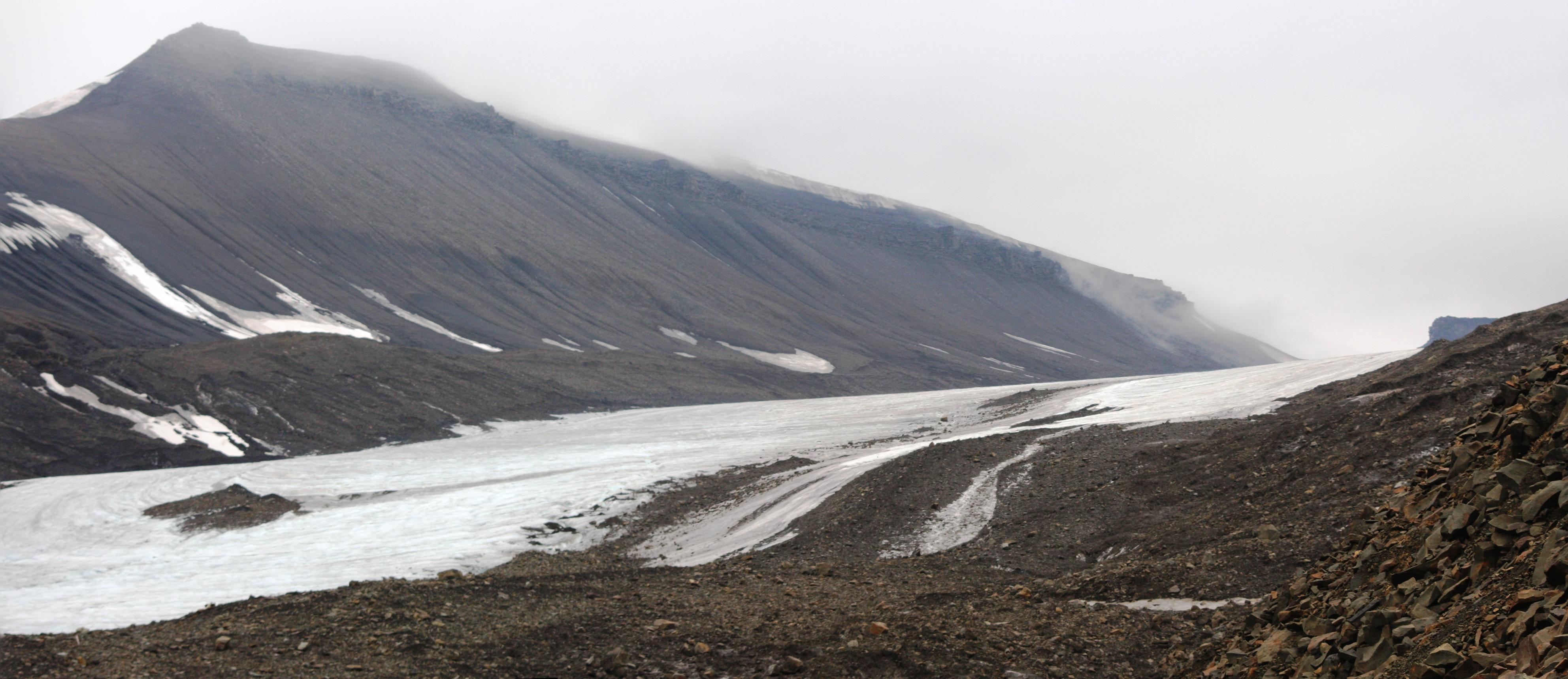 Longyear glacier and Lars Hierta mountain, south of Longyearbyen